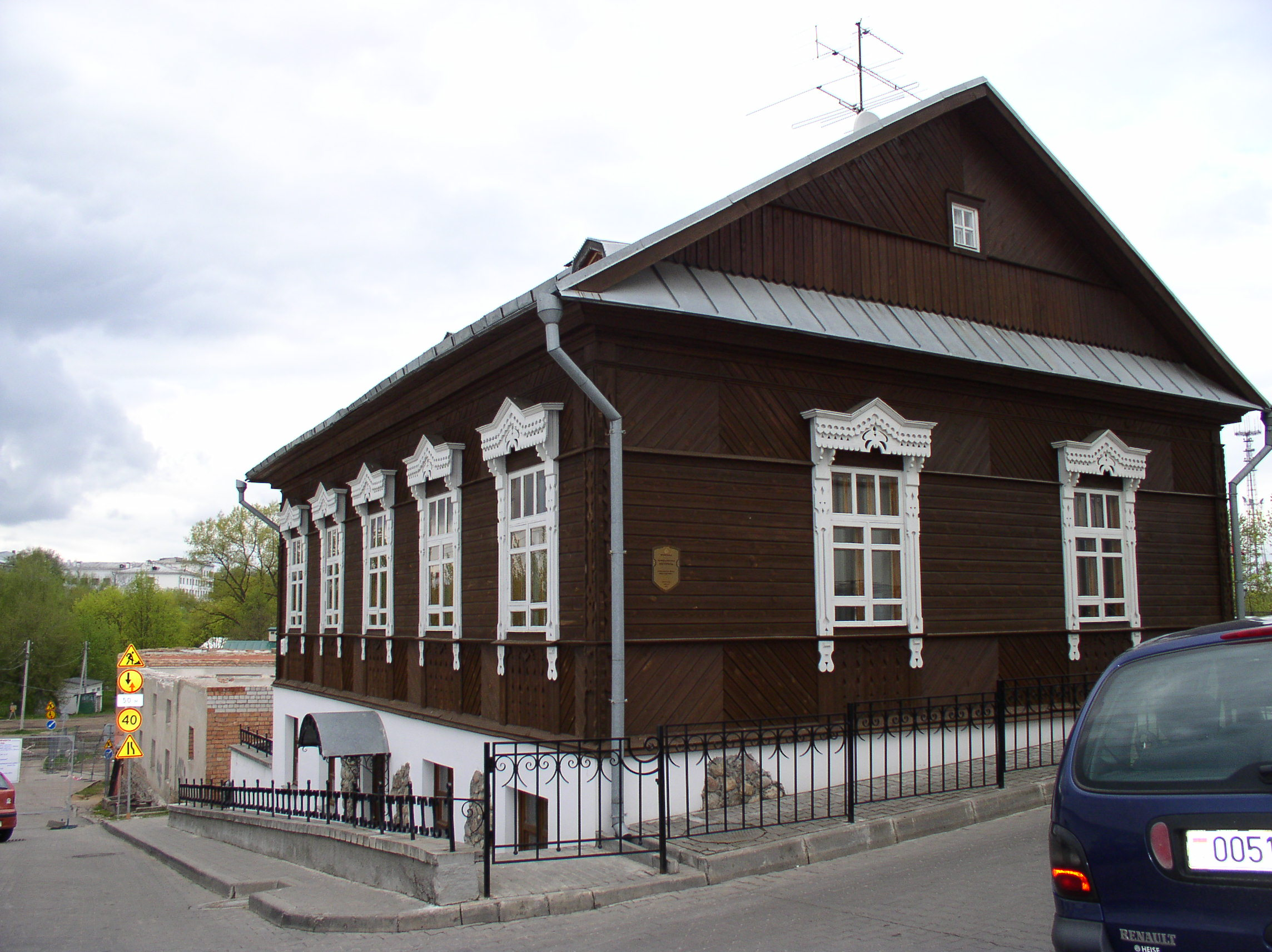 Hyertsen street, 6. Minsk, Belarus.